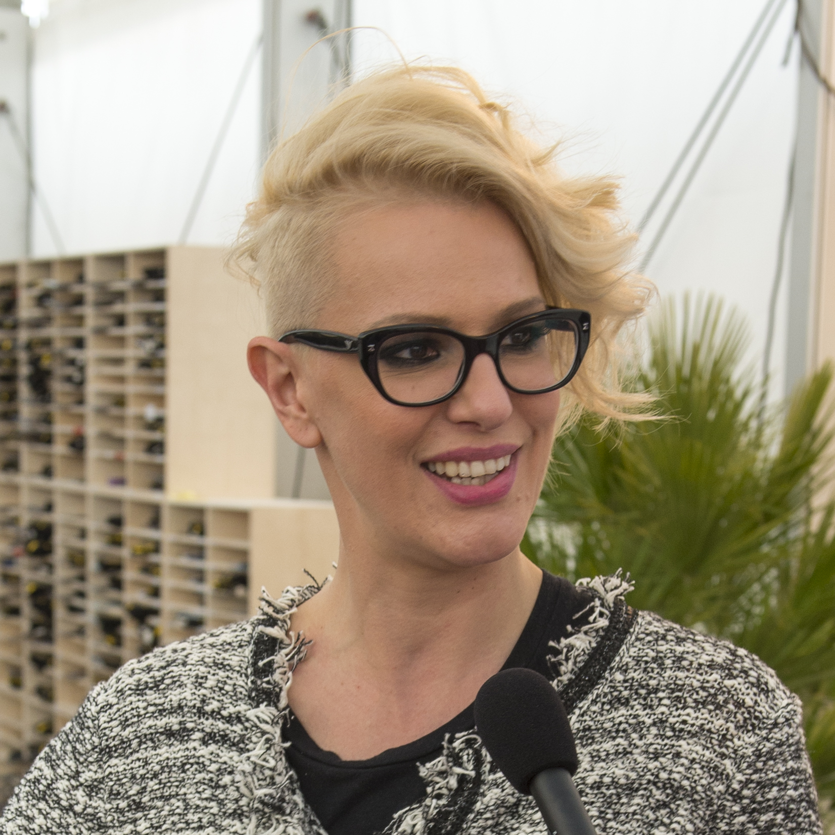 Tijana Todevska-Dapčević at a Meet & Greet during the Eurovision Song Contest 2014 Copenhagen. (Help translate this text)